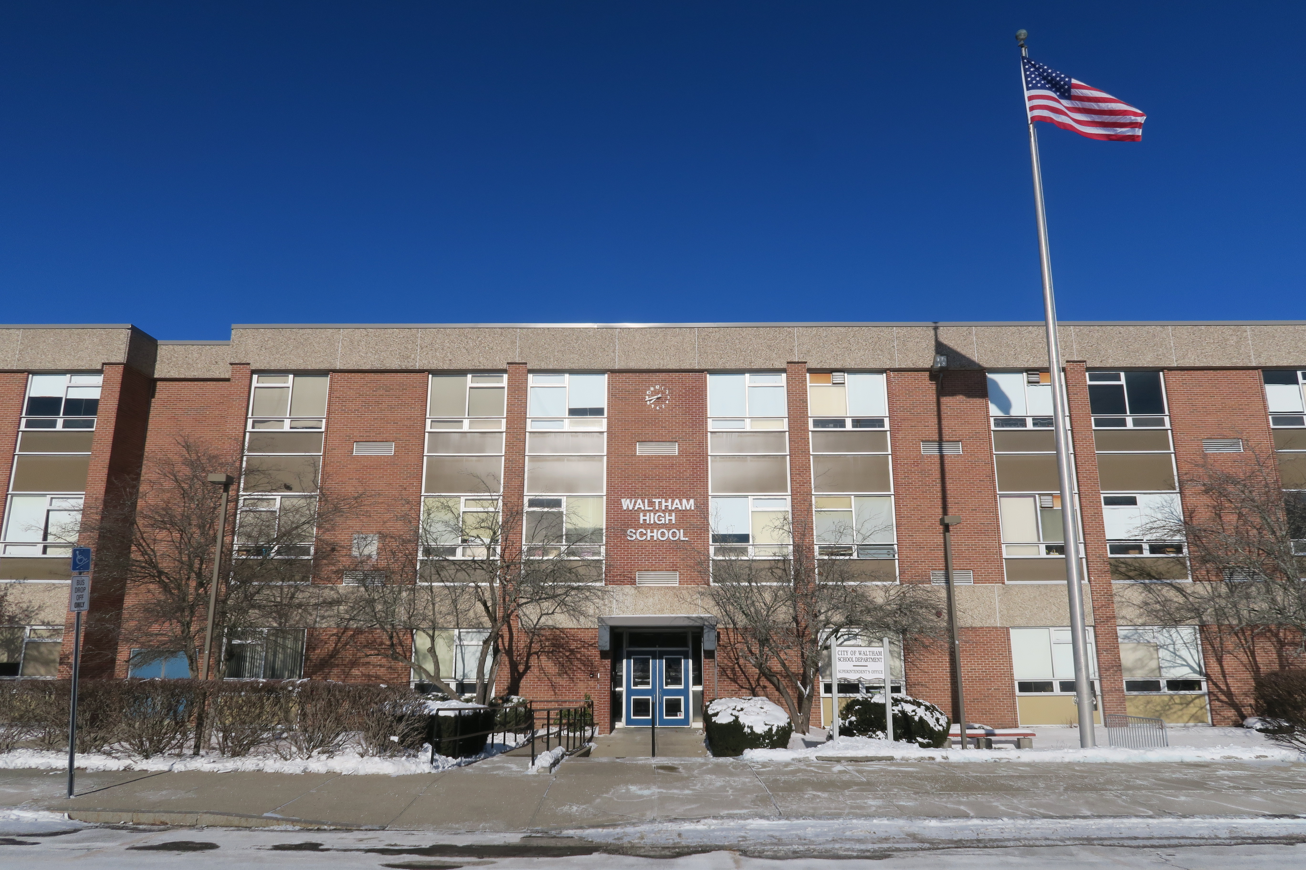 Waltham High School, Waltham Massachusetts